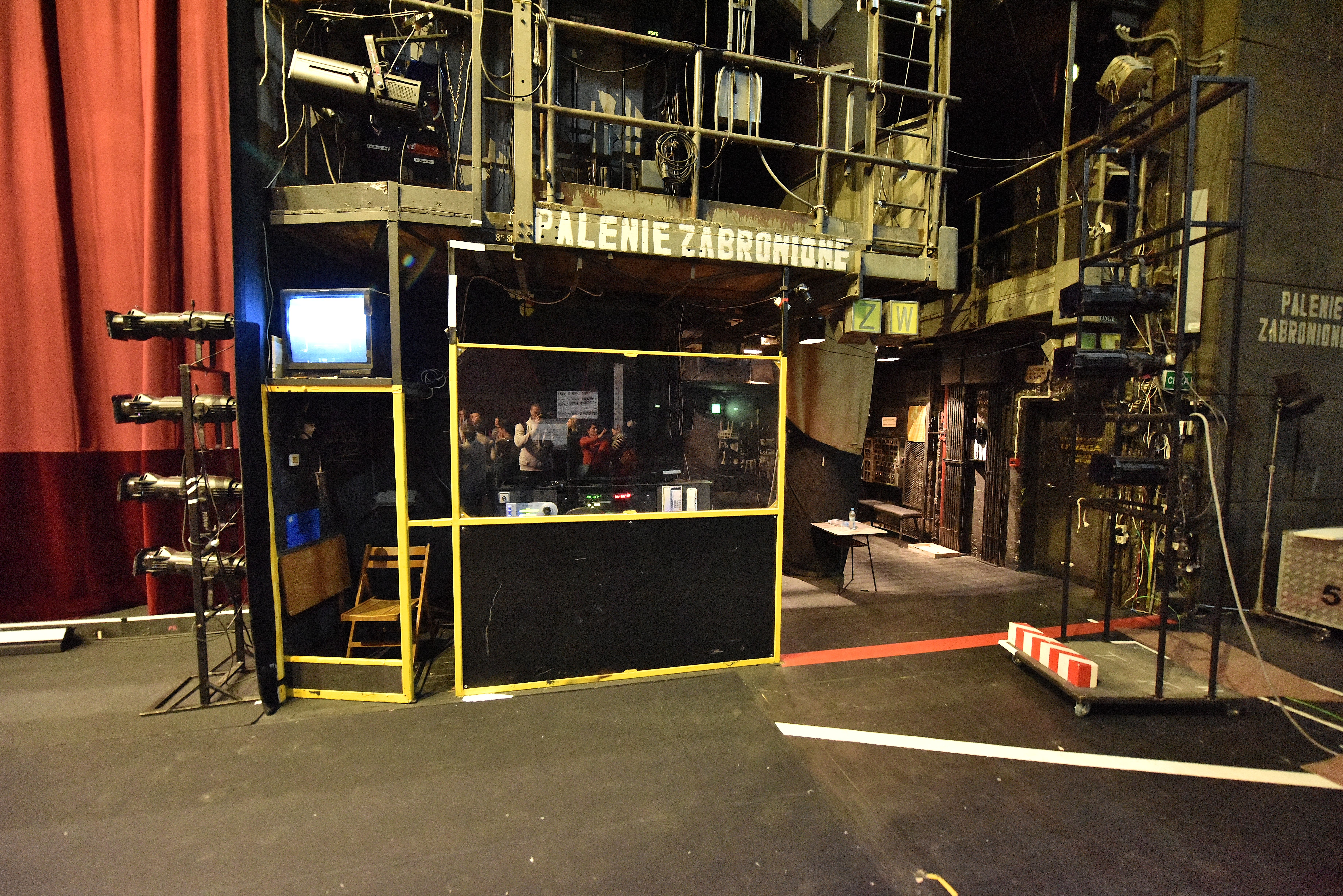 Stage manager's box at the Grand Theatre in Warsaw